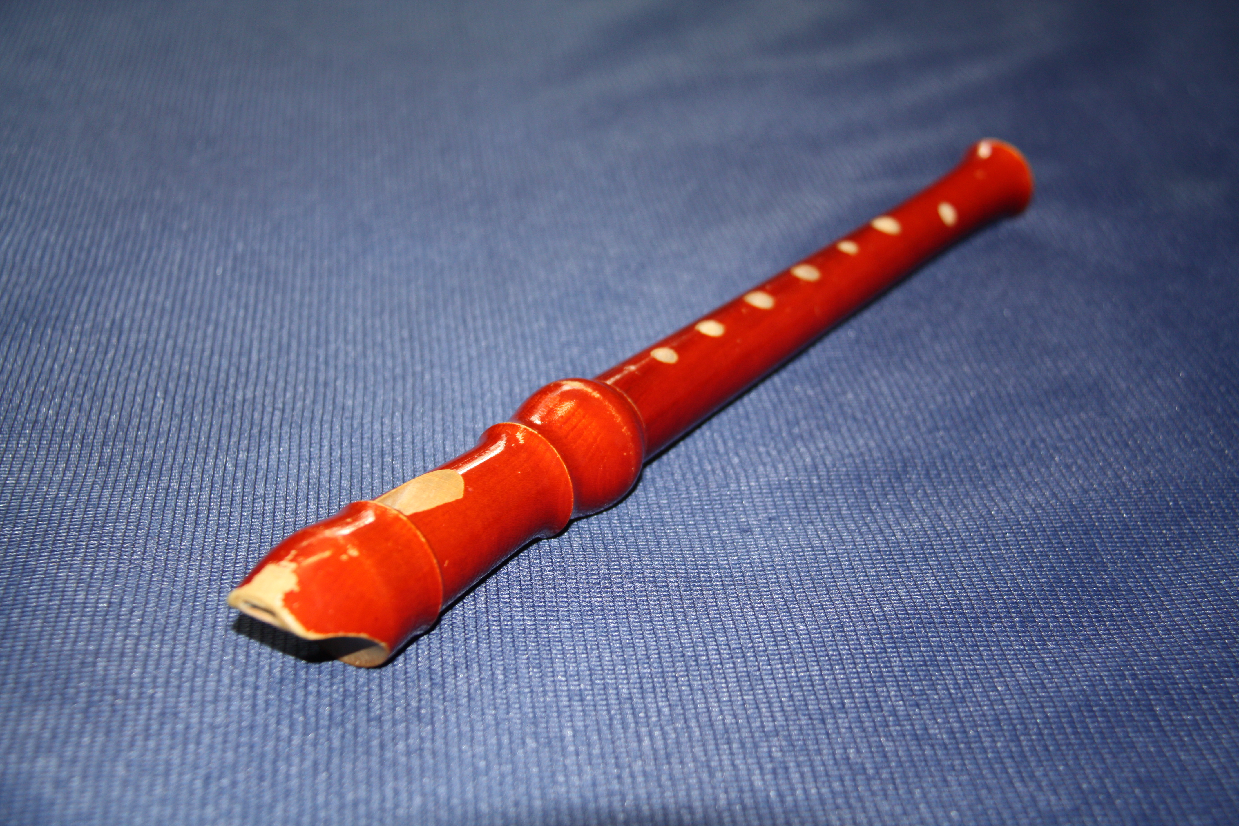 Recorder